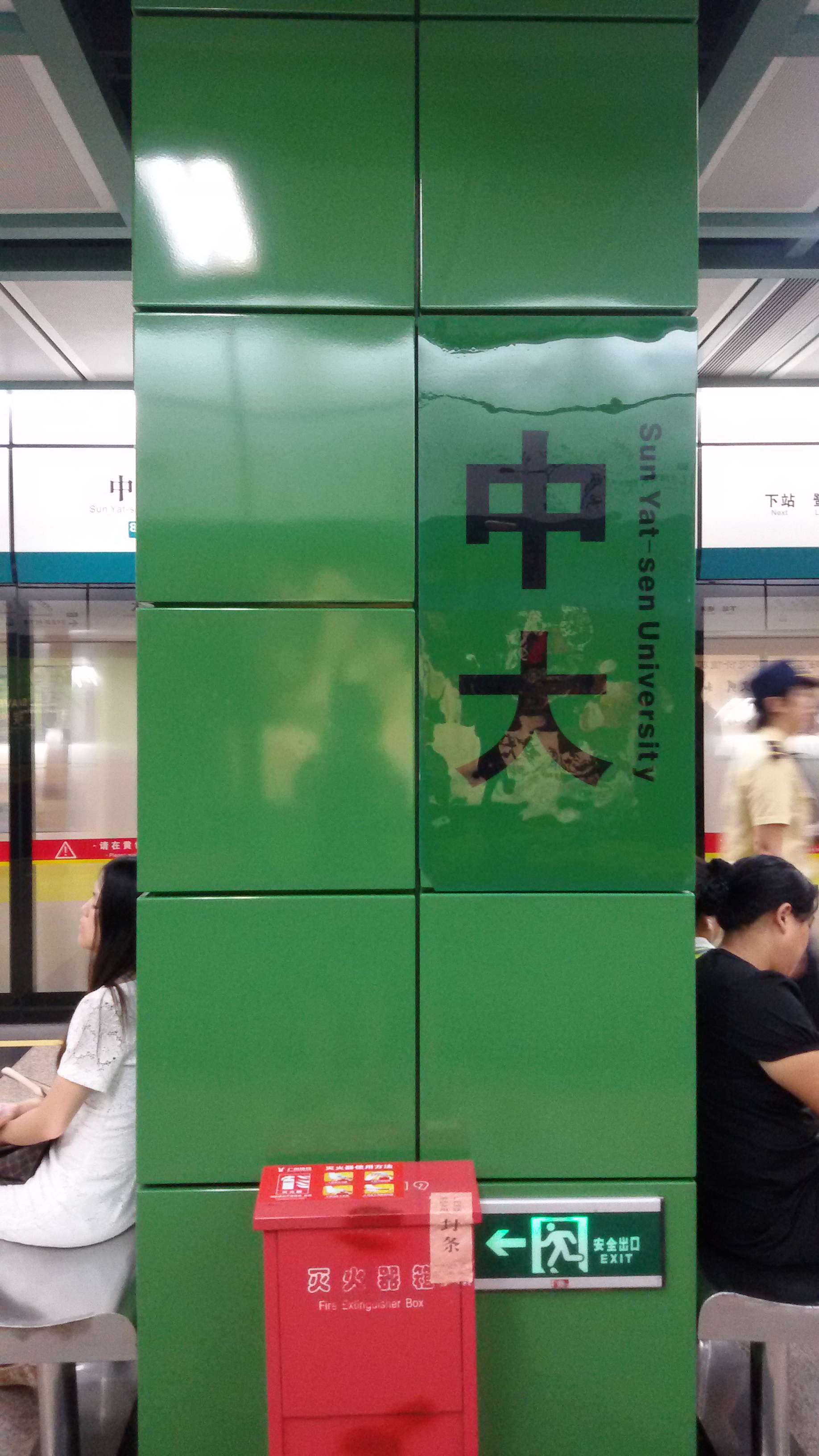 WORD on PILLAR for Sun Yat-sen University Station, Guangzhou Metro.